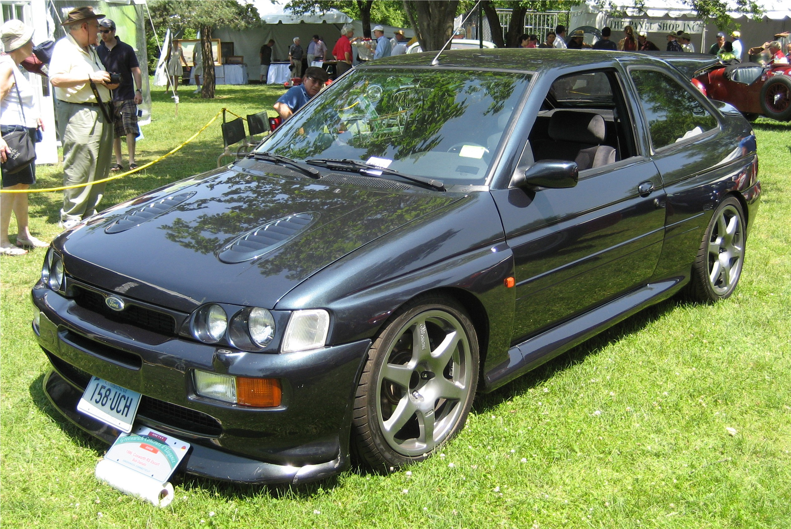 1996 Cosworth RS Escort photographed at the 2008 Greenwich Concours d'Elegance in Greenwich, Connecticut.